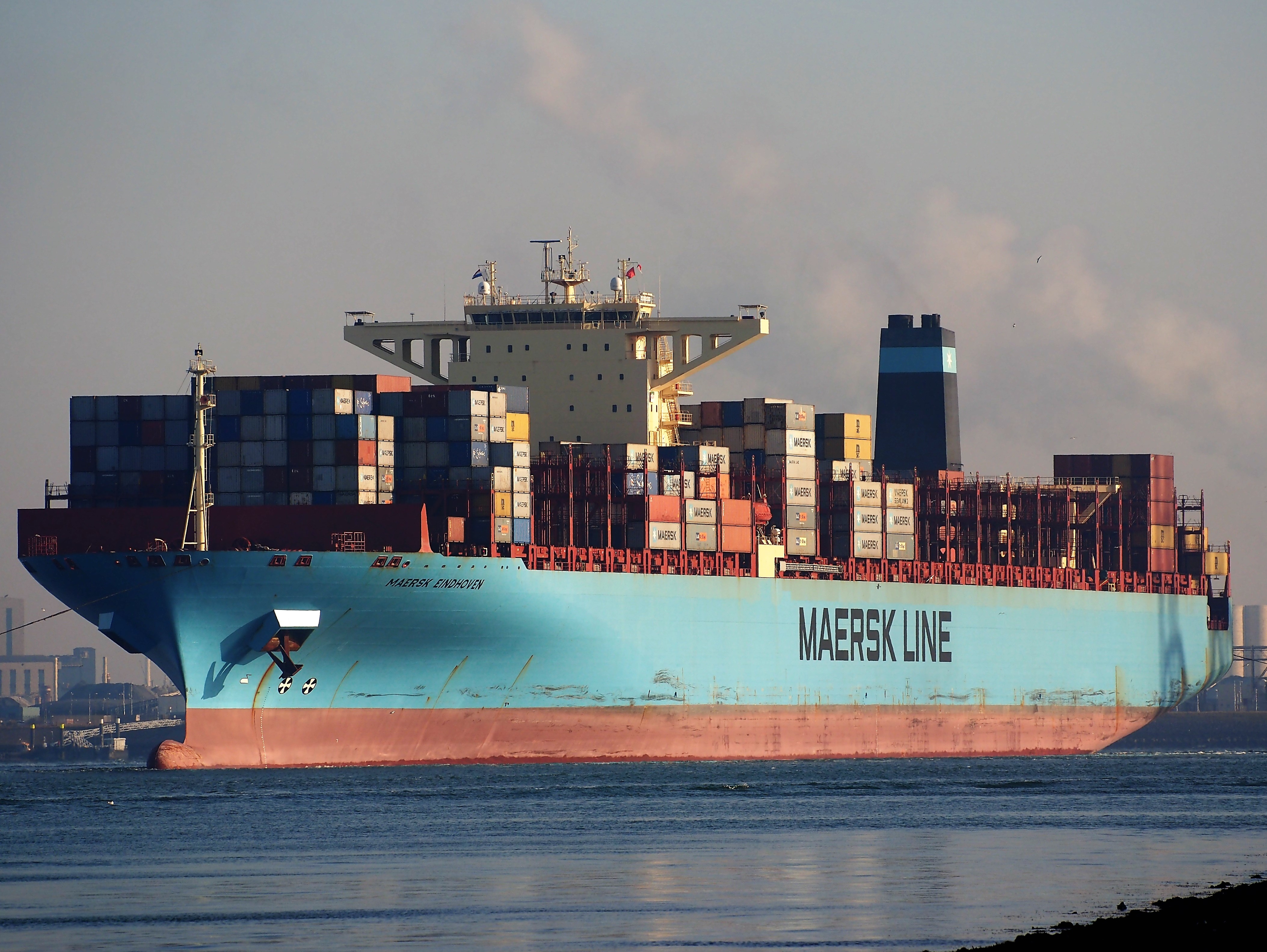 Maersk Eindhoven (ship, 2010) IMO 9456771 Port of Rotterdam.